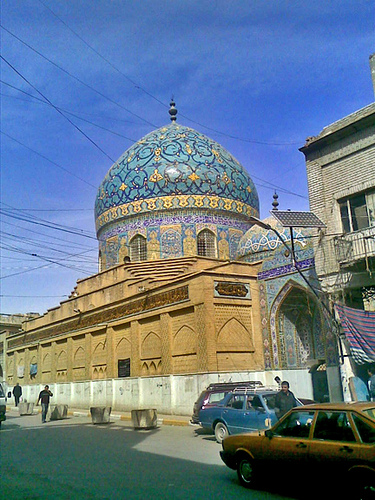 Al Haidarkhana mosque in Baghdad - Al Rasafa